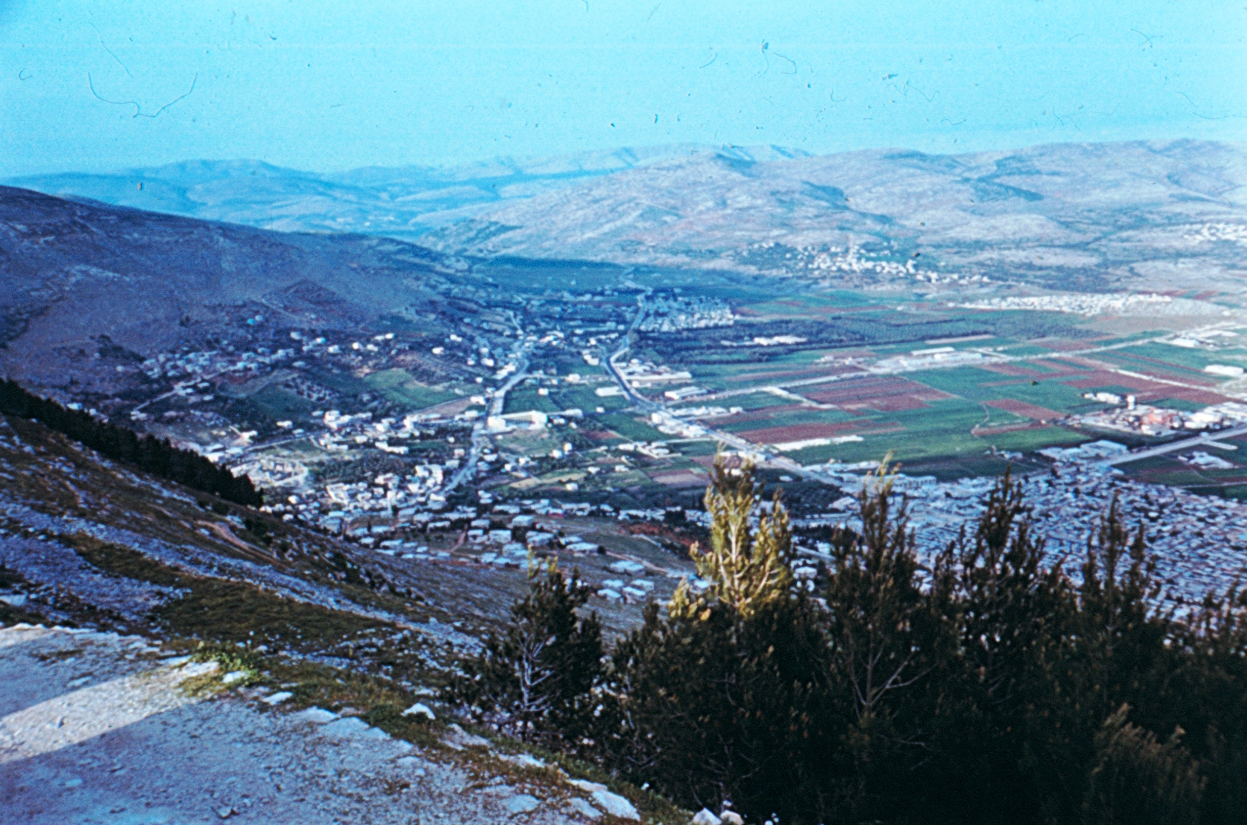 Michmethath__which_is_before_Shechem